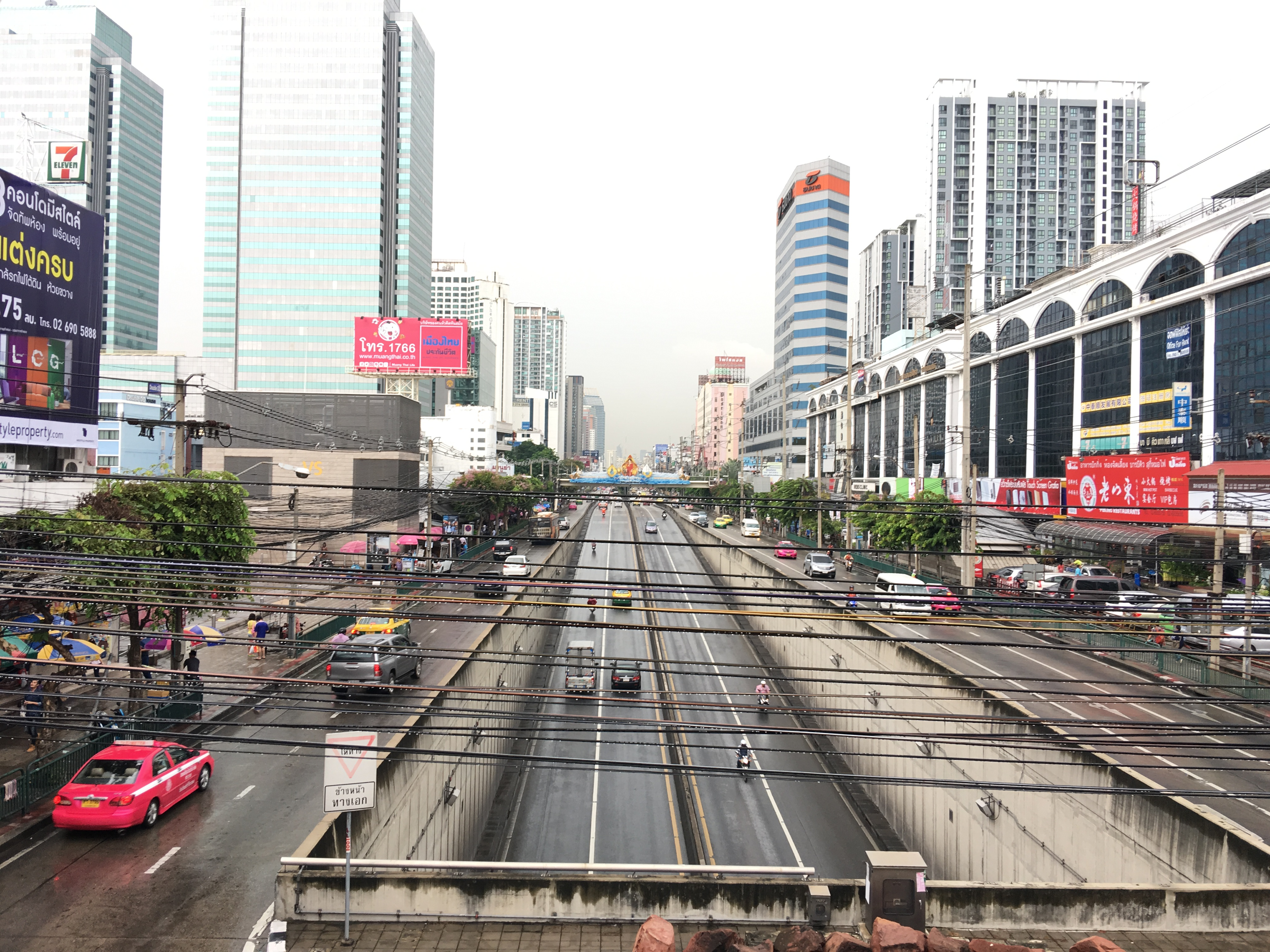 Ratchadaphisek Road at Sutthisan Intersection